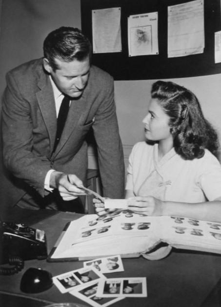 Photo of Marshall Reed and Donna Martell from the television program The Lineup.